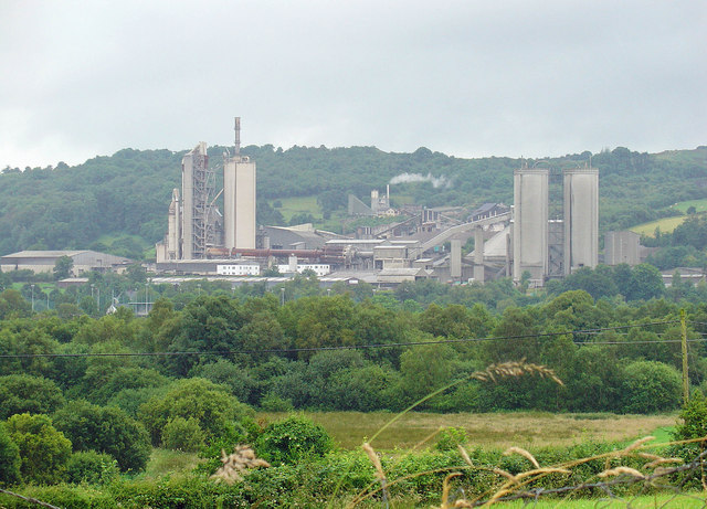 Derrylin cement plant: Gortmullan, Co. Fermanagh This plant commenced operation in 1989. Slieve Rushen, northwest of the plant, is of Meenymore Sandstone (= Millstone Grit), underlain by Carboniferous Limestone which crops out at the base: the latter supplies raw material for the plant.